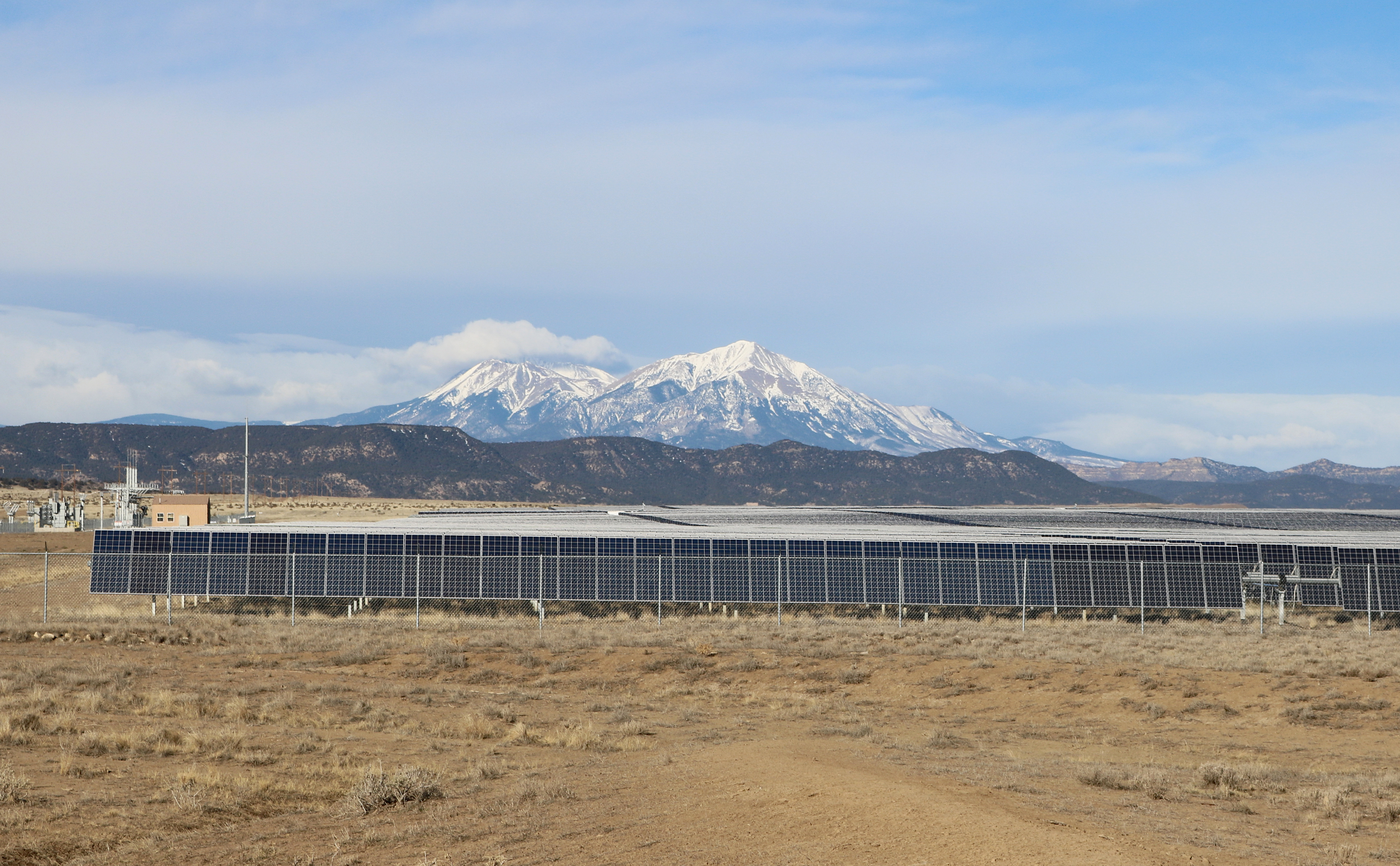 The San Isabel Solar Project, located along County Road 52 near its intersection with County Road 75 in Las Animas County, Colorado. The 30 MW project was completed in 2016. The view is to the west, and the Spanish Peaks lie in the distance.